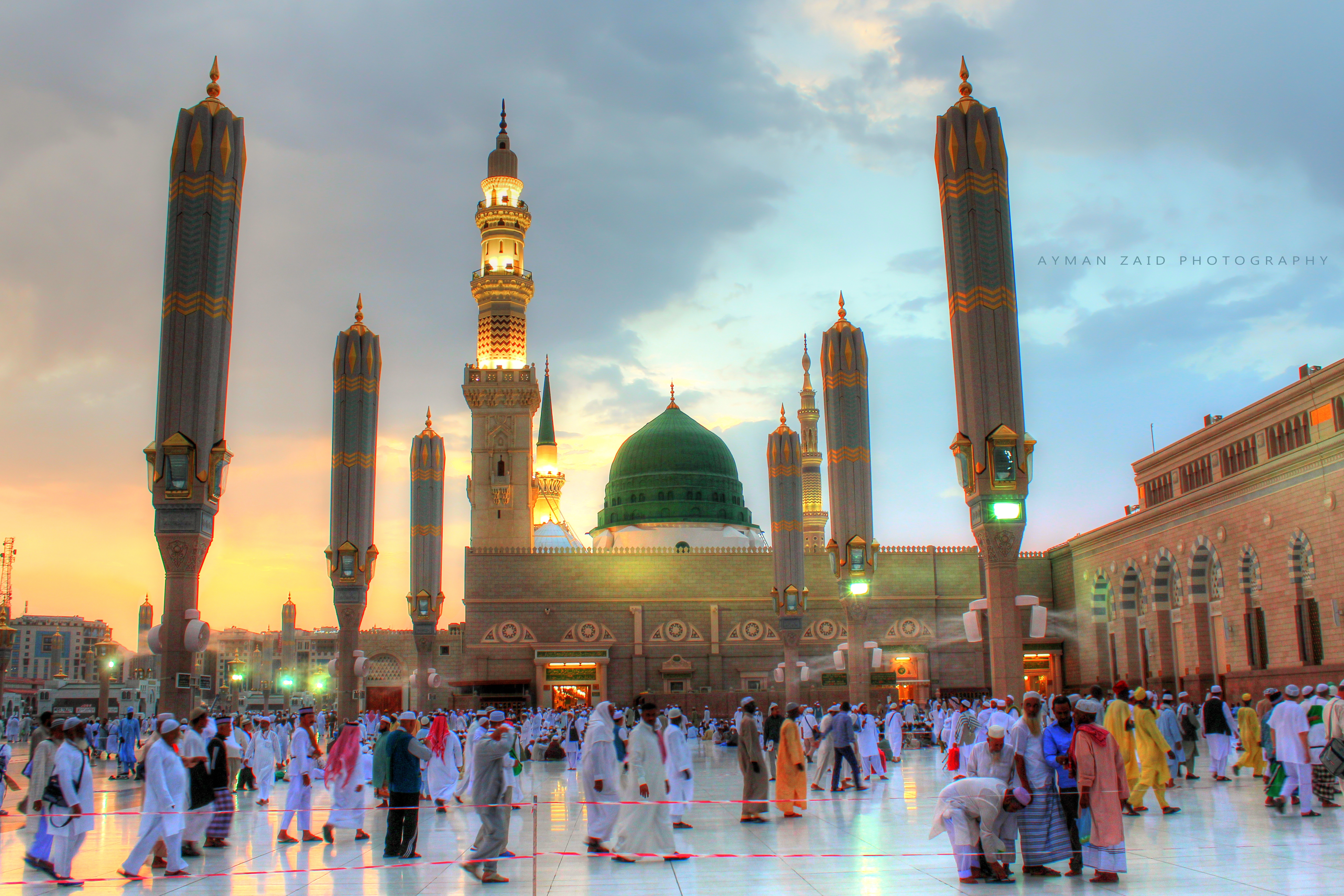 Al Masjid an Nabawi - Medina Saudi Arabia